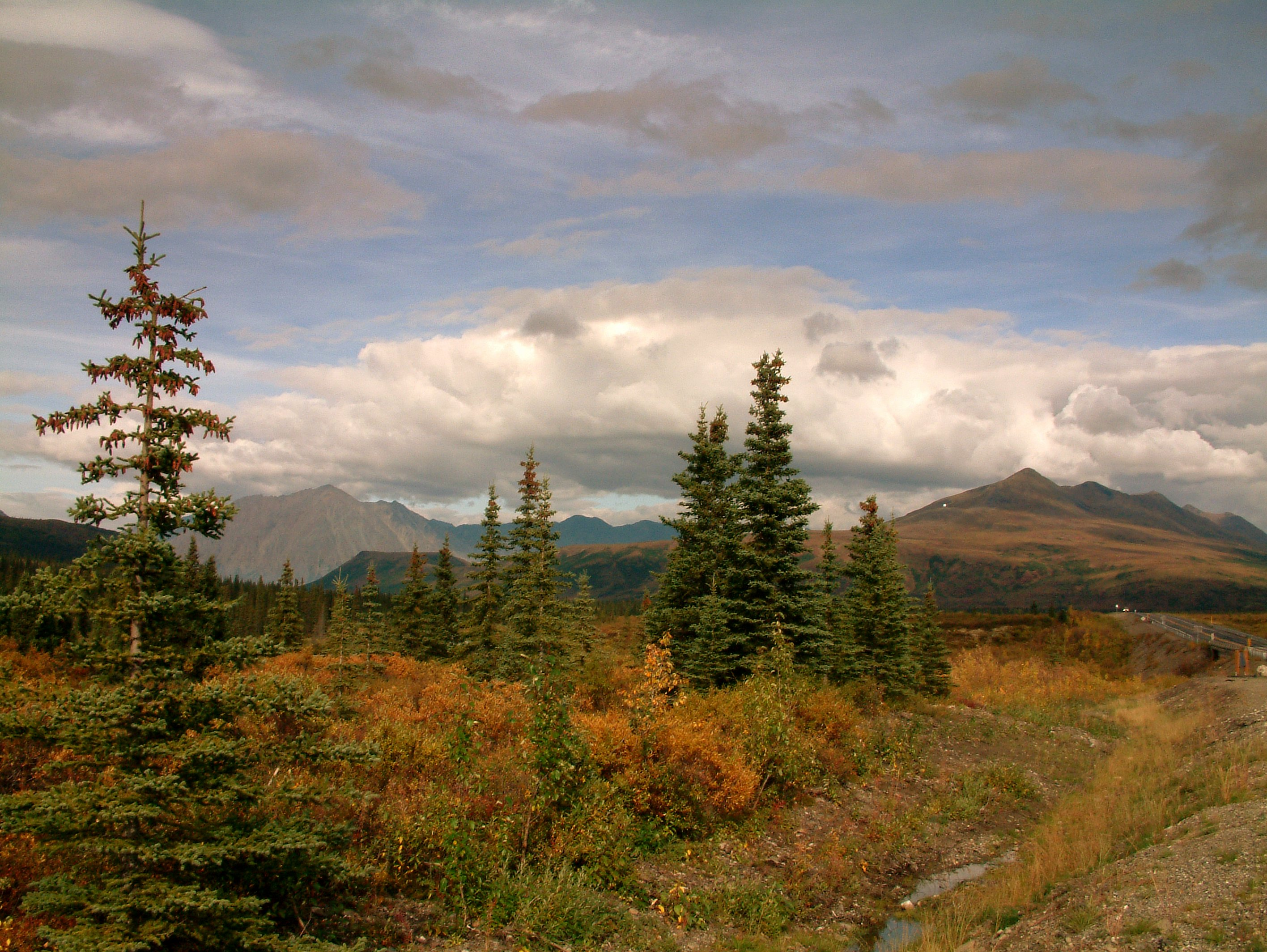 On the way into Denali National Park. Trees are Picea glauca